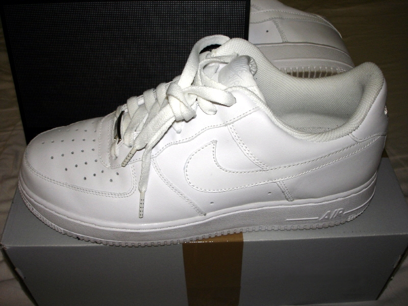 Nike Air Force 1 white low